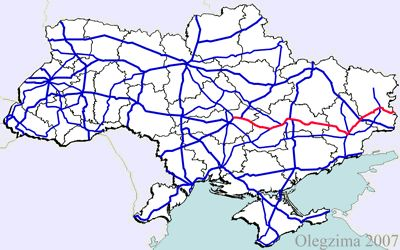 map of motorway M04 in Ukraine